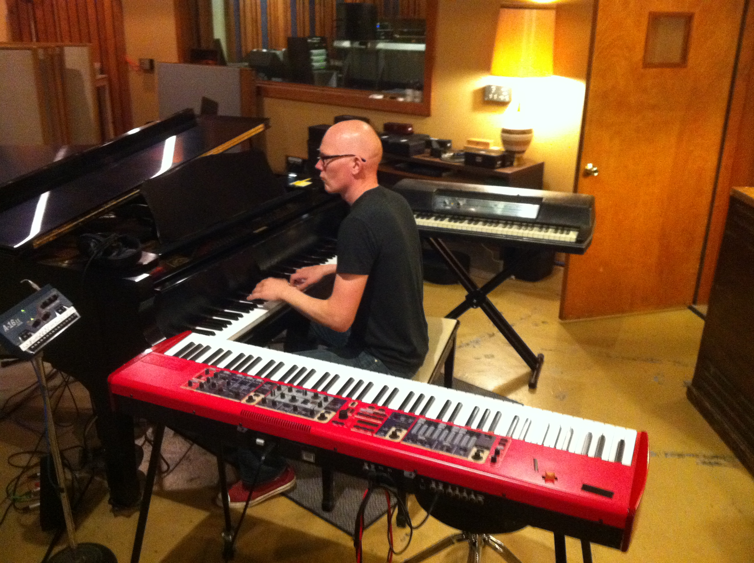 This weekend's "olden days" keyboard rig. 7ft. Yamaha ... hooray! Clavia Nord Stage ... debranded (because I'm neurotic!) Wurlitzer model 200 Leslie 122 Aviom A-16II contemplative "jazz face"